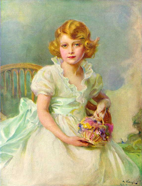 E. is currently Queen Elizabeth II of the United Kingdom, painted when she was seven years old (1933)